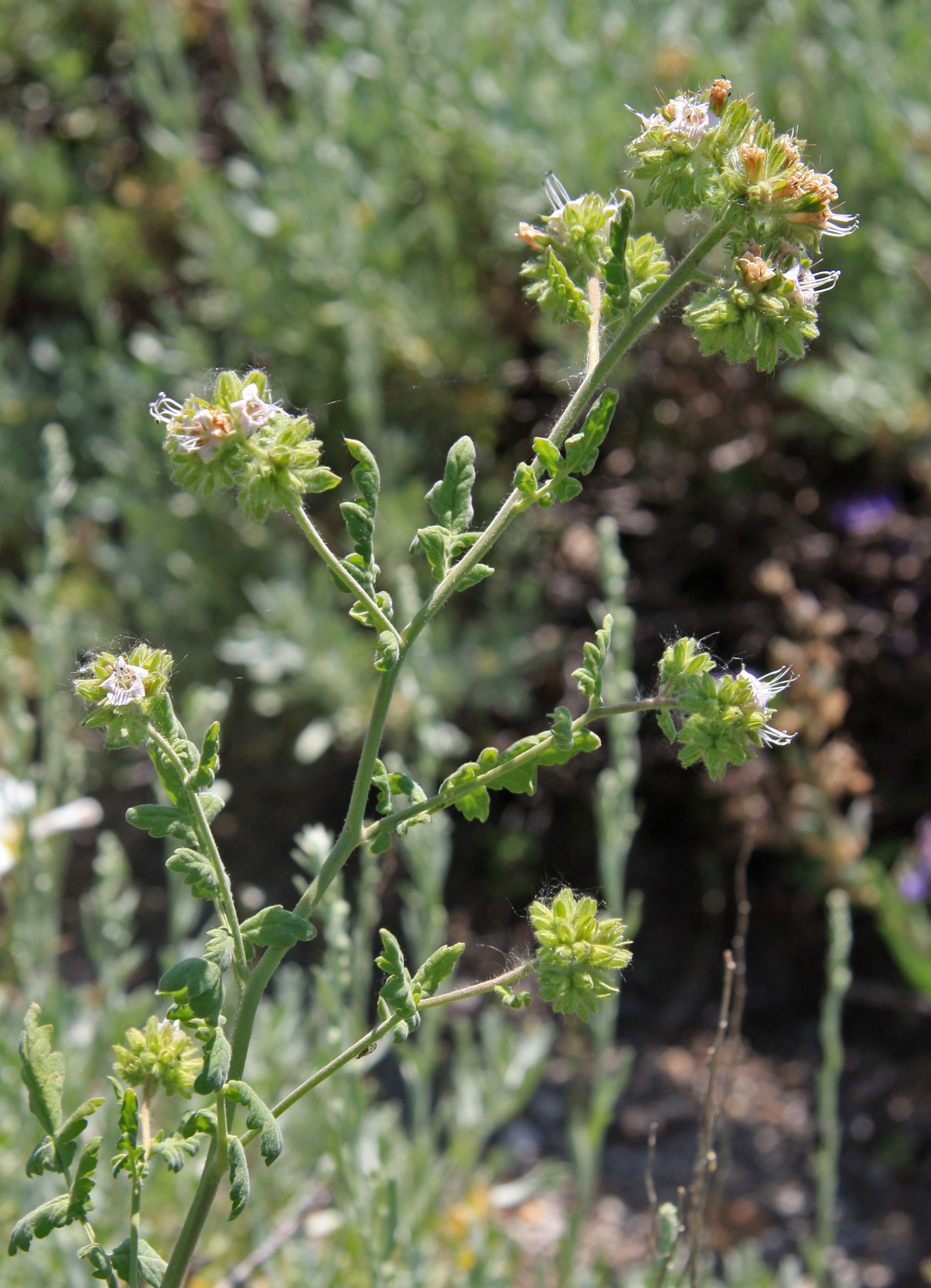 Branching phacelia (Phacelia ramosissima), flowerhead, branching, and leaves. At 8900ft along High Trail above Agnew Meadows, Ansel Adams Wilderness, California.